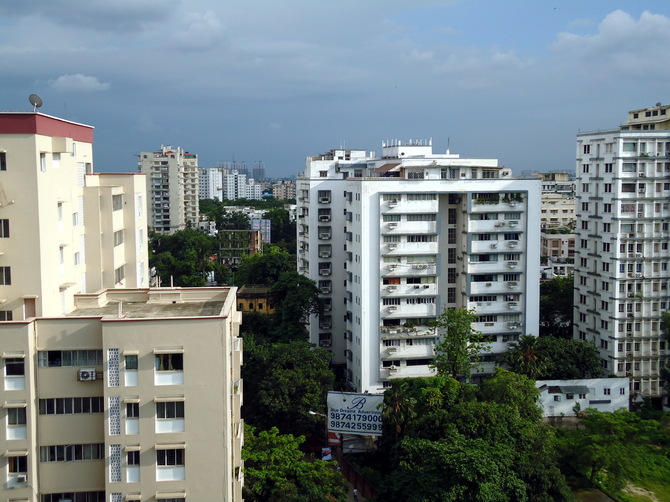 Ballygunge Circular Road view